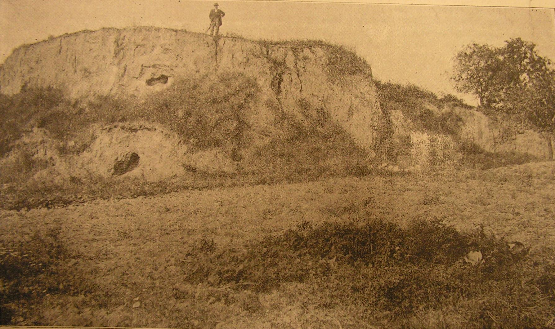 Předmostí by Přerov, archeological locality, Chromeček parcel, 1896